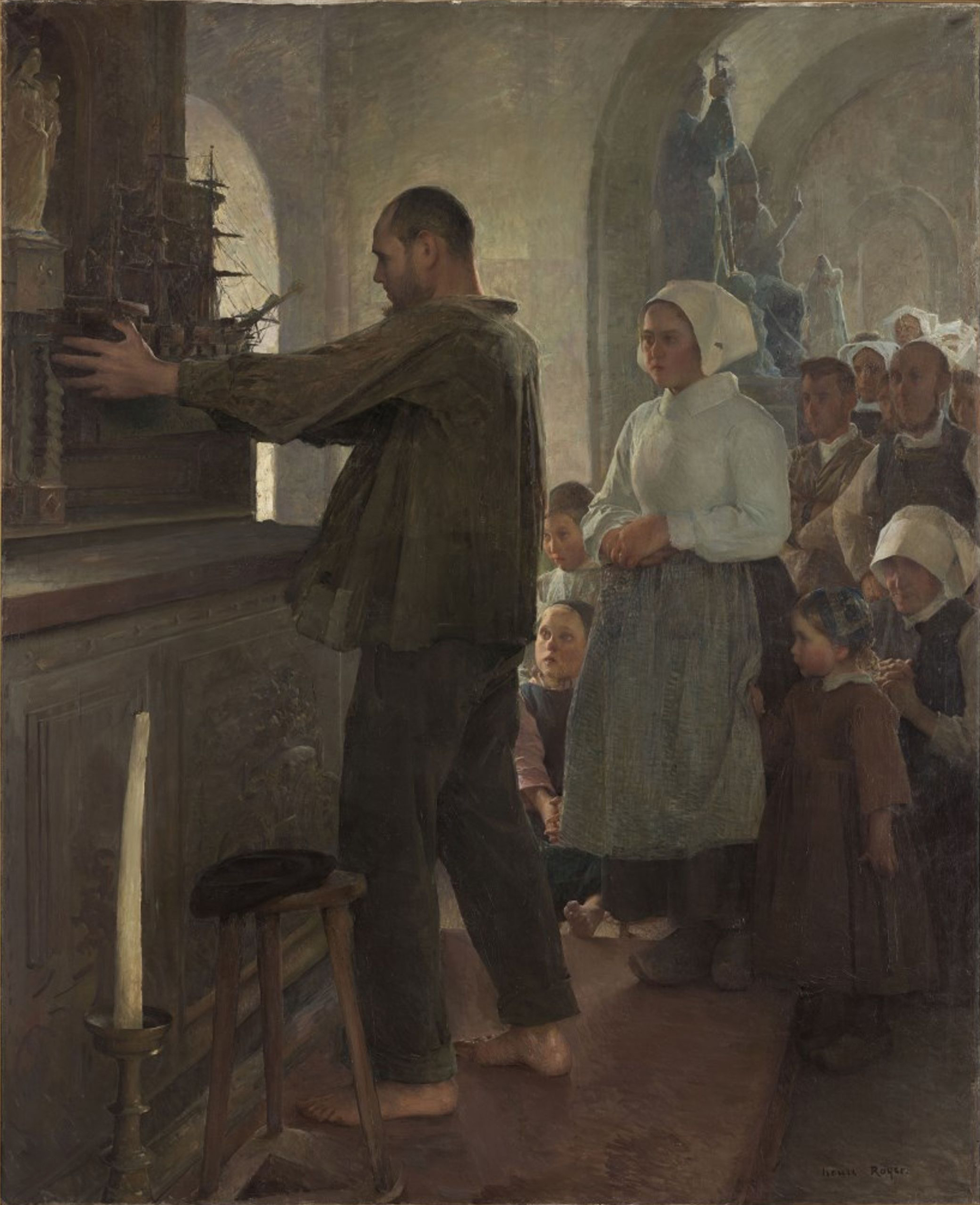 Oil on canvas by French Artist Henri Royer (1869-1938)